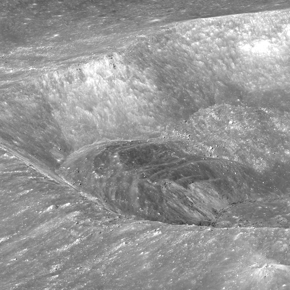 LROC NAC view of the south wall and rim of splendiferous Larmor Q crater, looking obliquely east-to-west from an altitude of 60 km; image M174081337 [NASA/GSFC/Arizona State University].